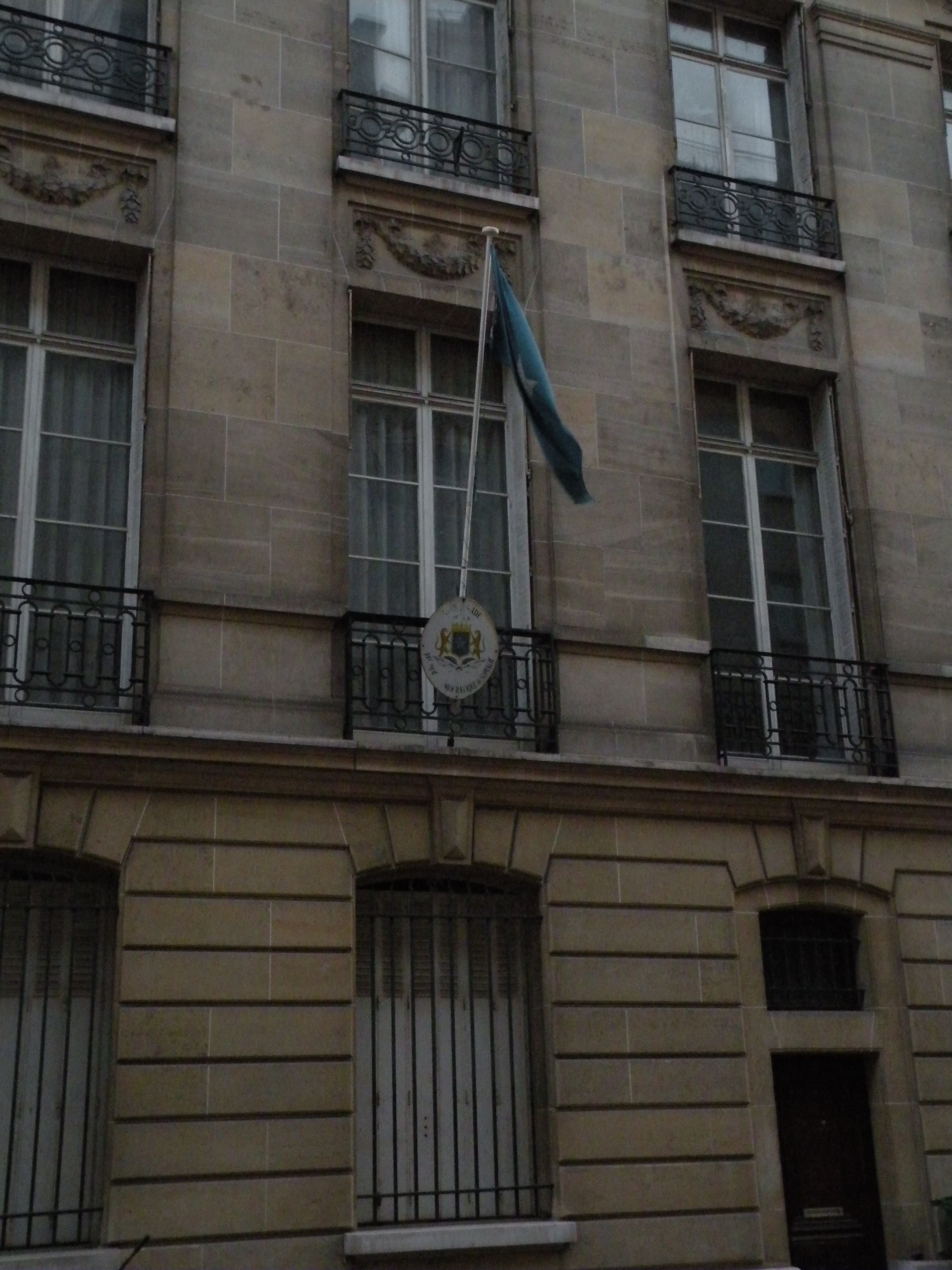 Somali embassy in Paris, France - 26 rue Dumont d'Urville